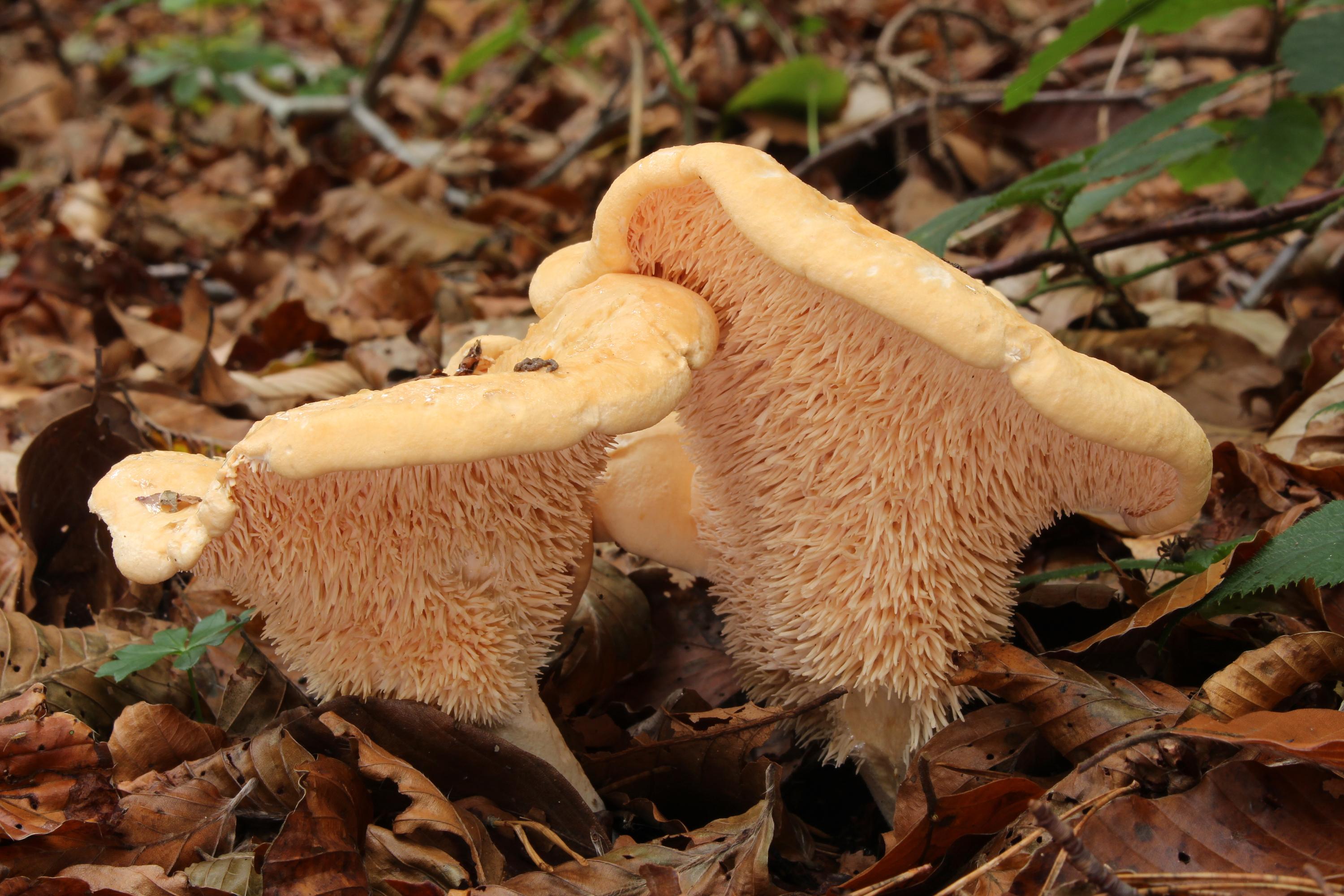 Sweet Tooth, Wood Hedgehog or Hedgehog Mushroom, Hydnum repandum, Family: Hydnaceae, Location: Germany, Erbach, Ringingen